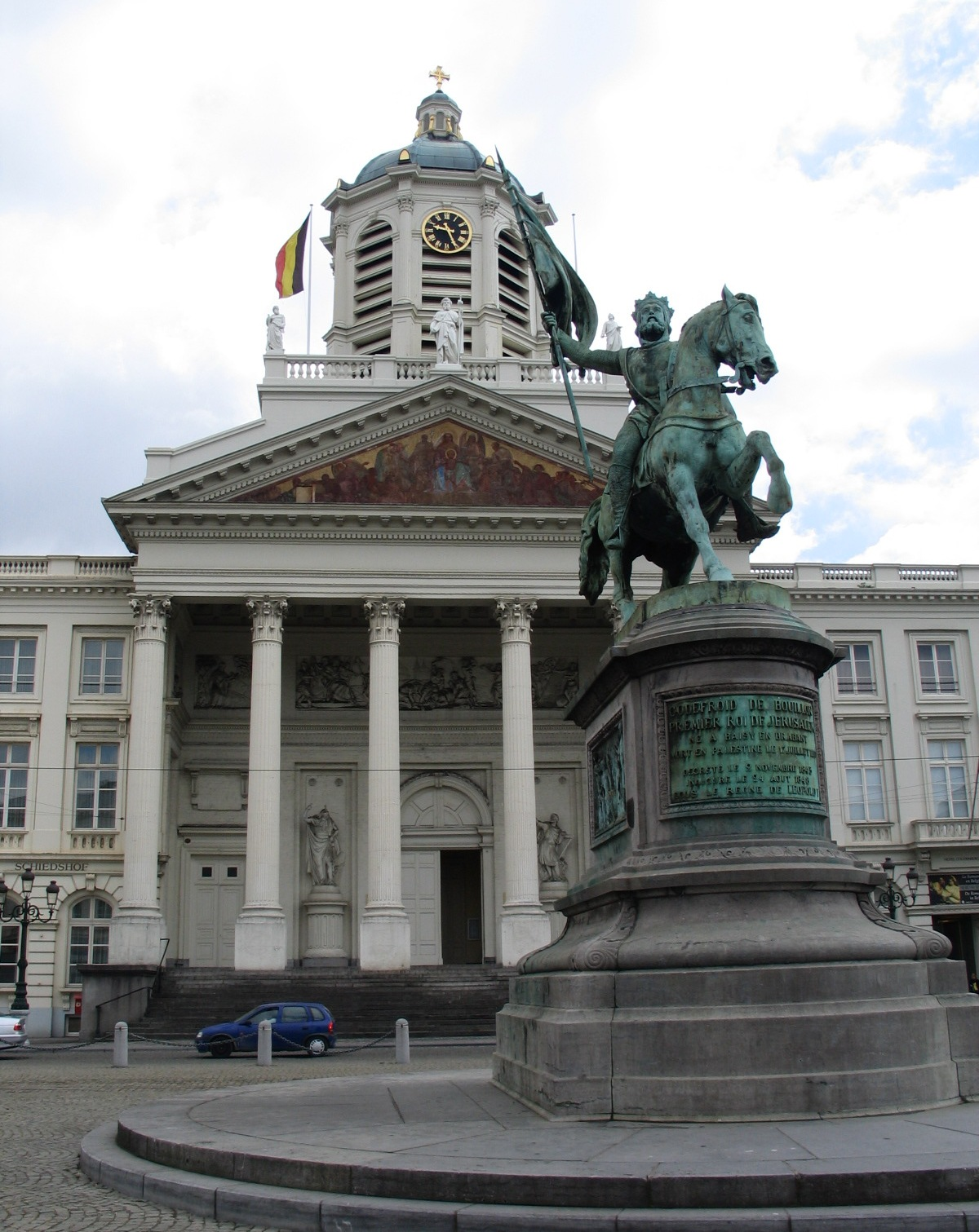 Statue of Godfrey of Bouillon in Brussels.